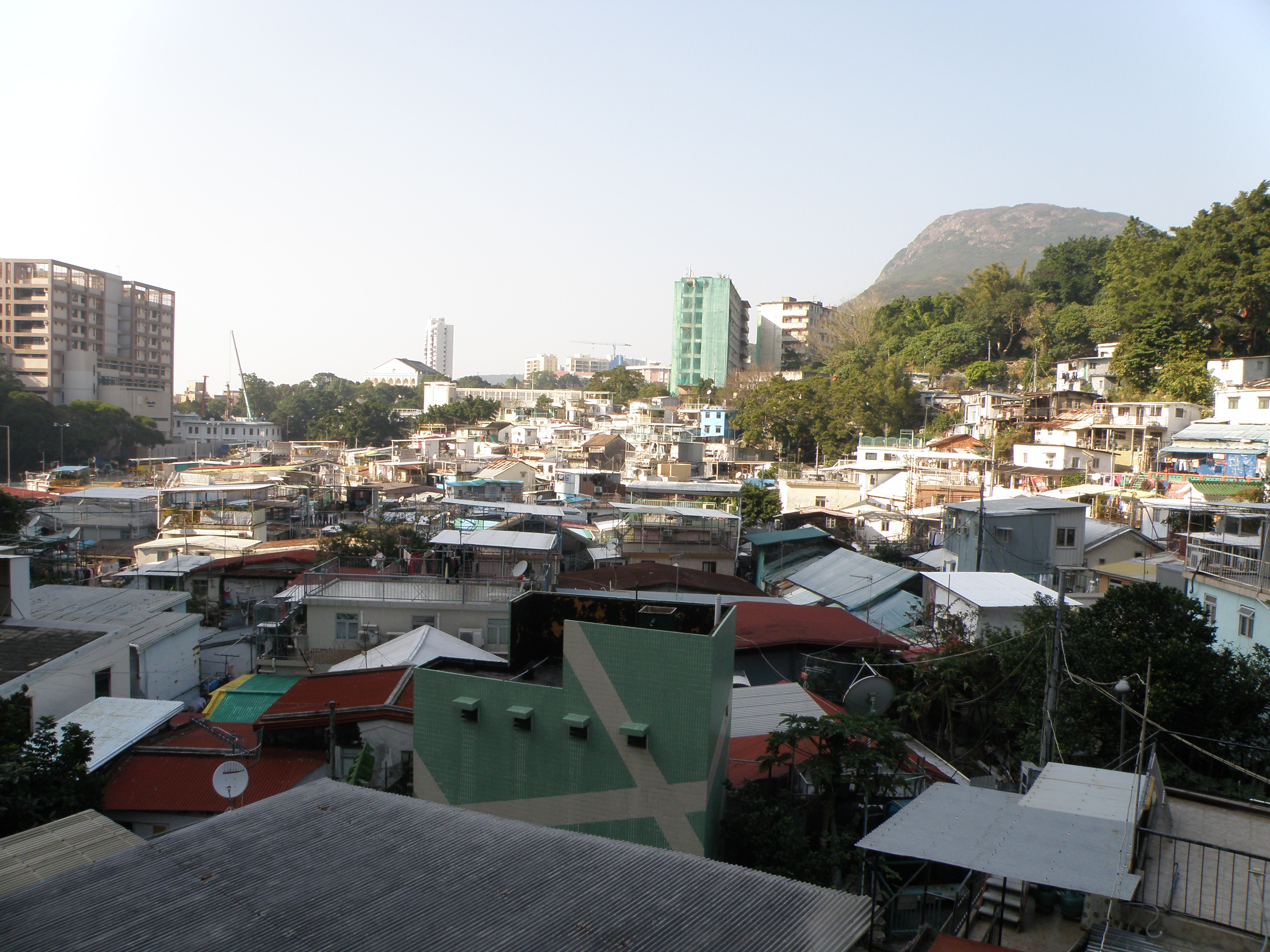 Pok Fu Lam Village in Southern District, Hong Kong.